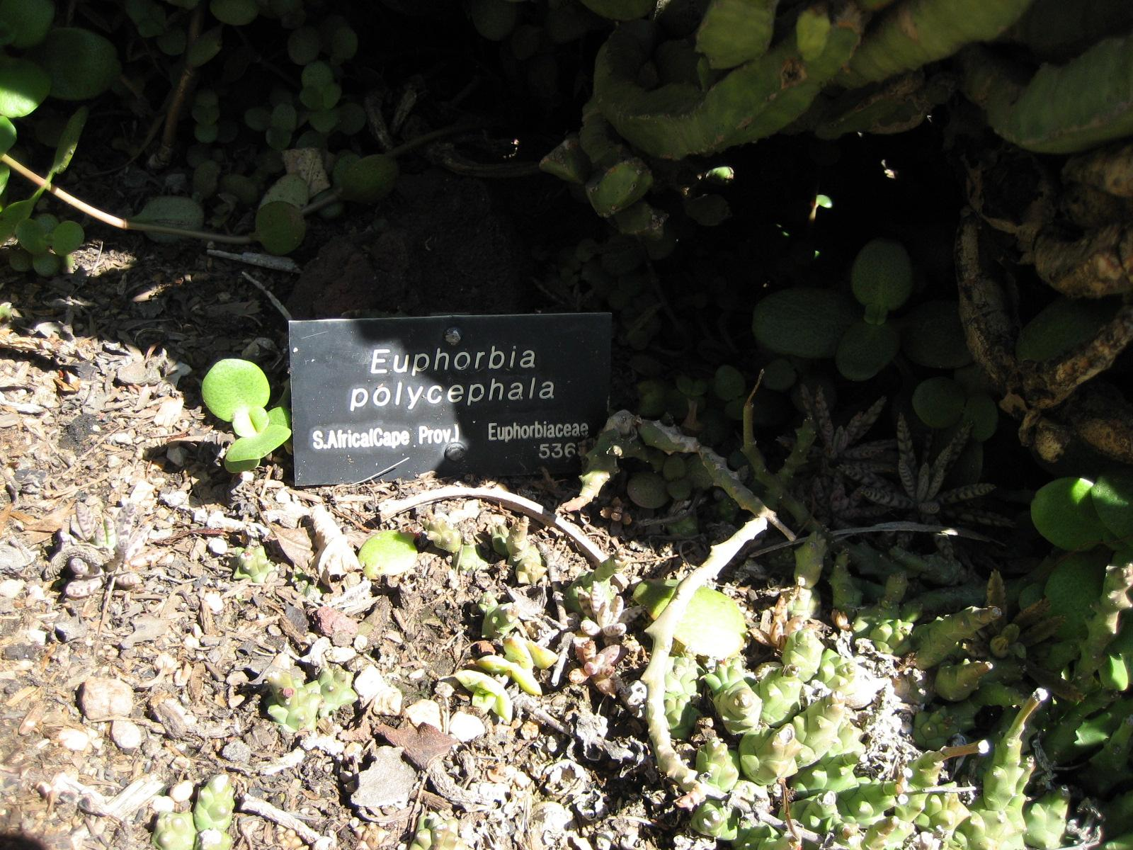 Photographed at Huntington Gardens (Los Angeles) in March